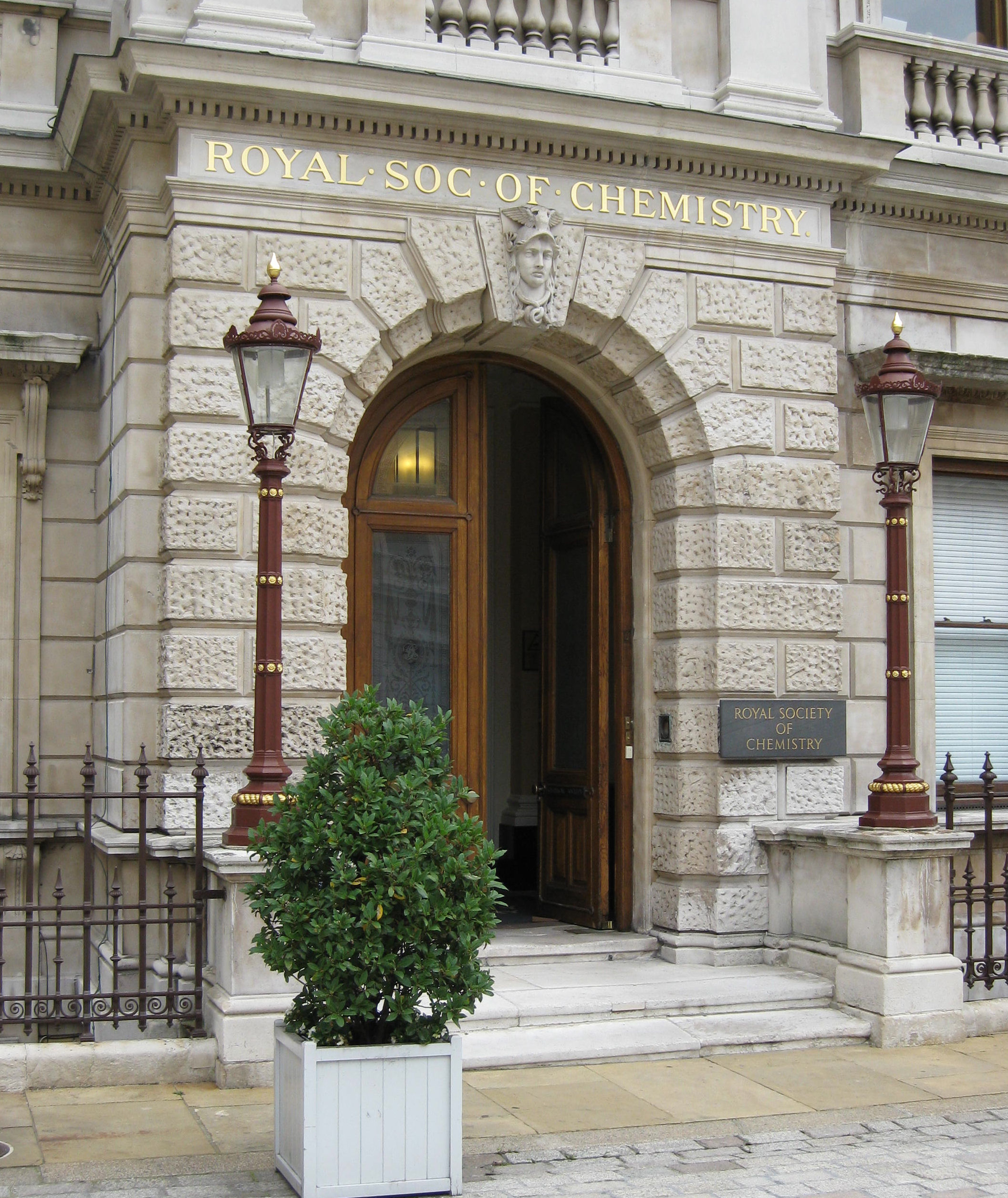 Entrance to the headquarters of the Royal Society of Chemistry, Burlington House, Piccadilly, London W1J 0BA